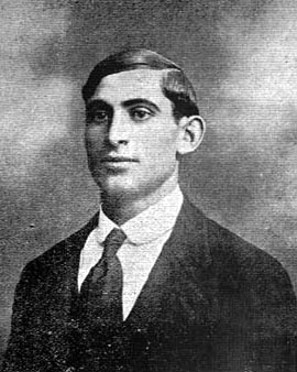 Uruguayan football defender Abdón Porte, who played for Club Nacional de Football until his suicide in 1918.